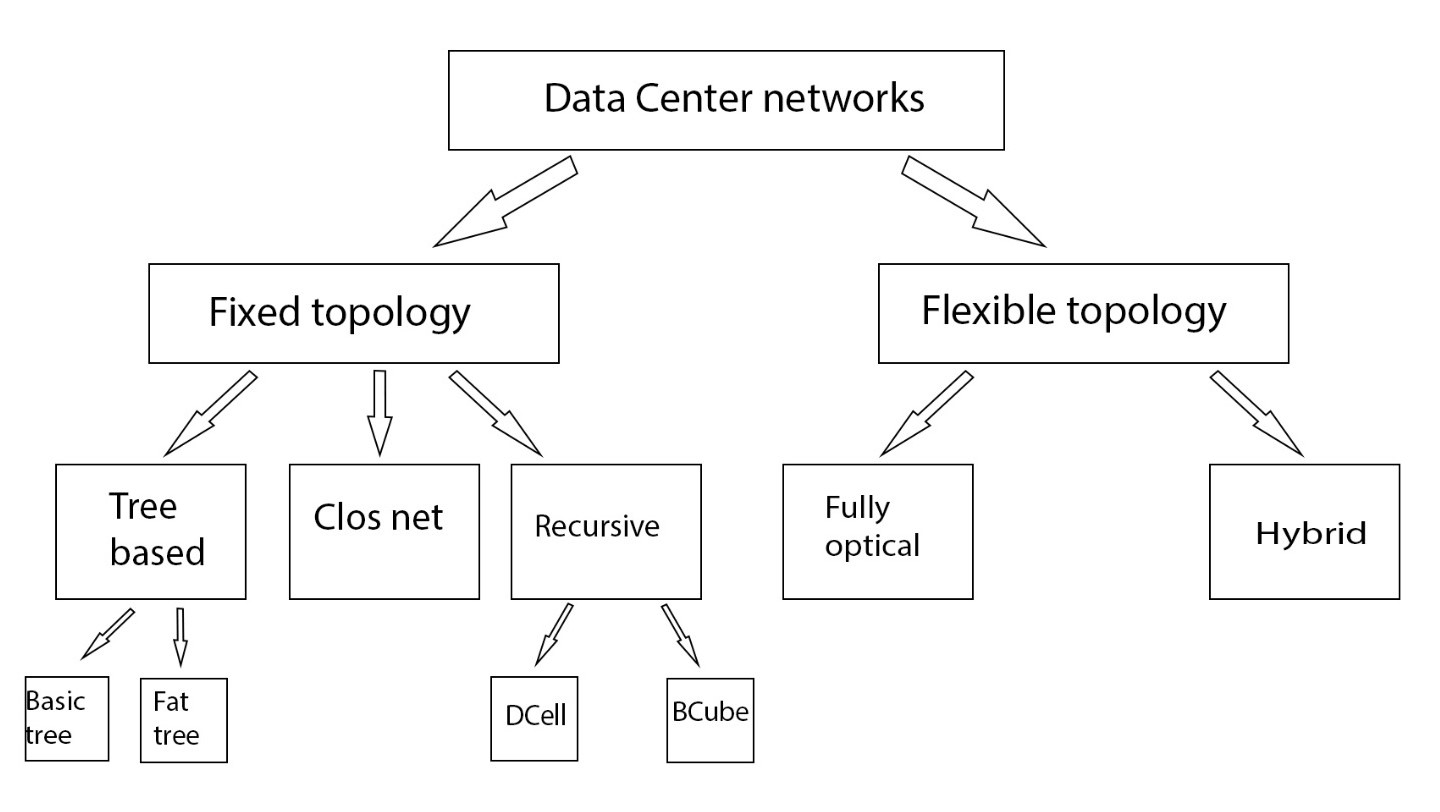 Classificazione della topologia di rete di un data center.